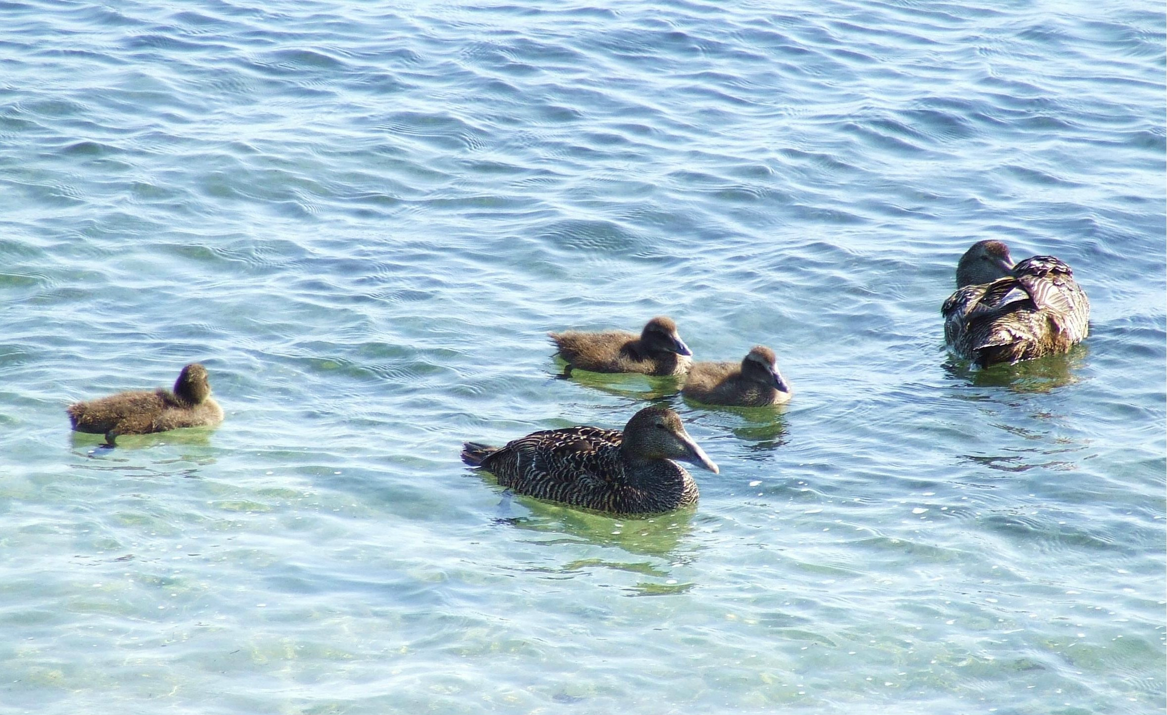 Chicks and adults of the Common Eider (Somateria mollissima) at the beach of Düne, a small island to the east of Heligoland in June 2007